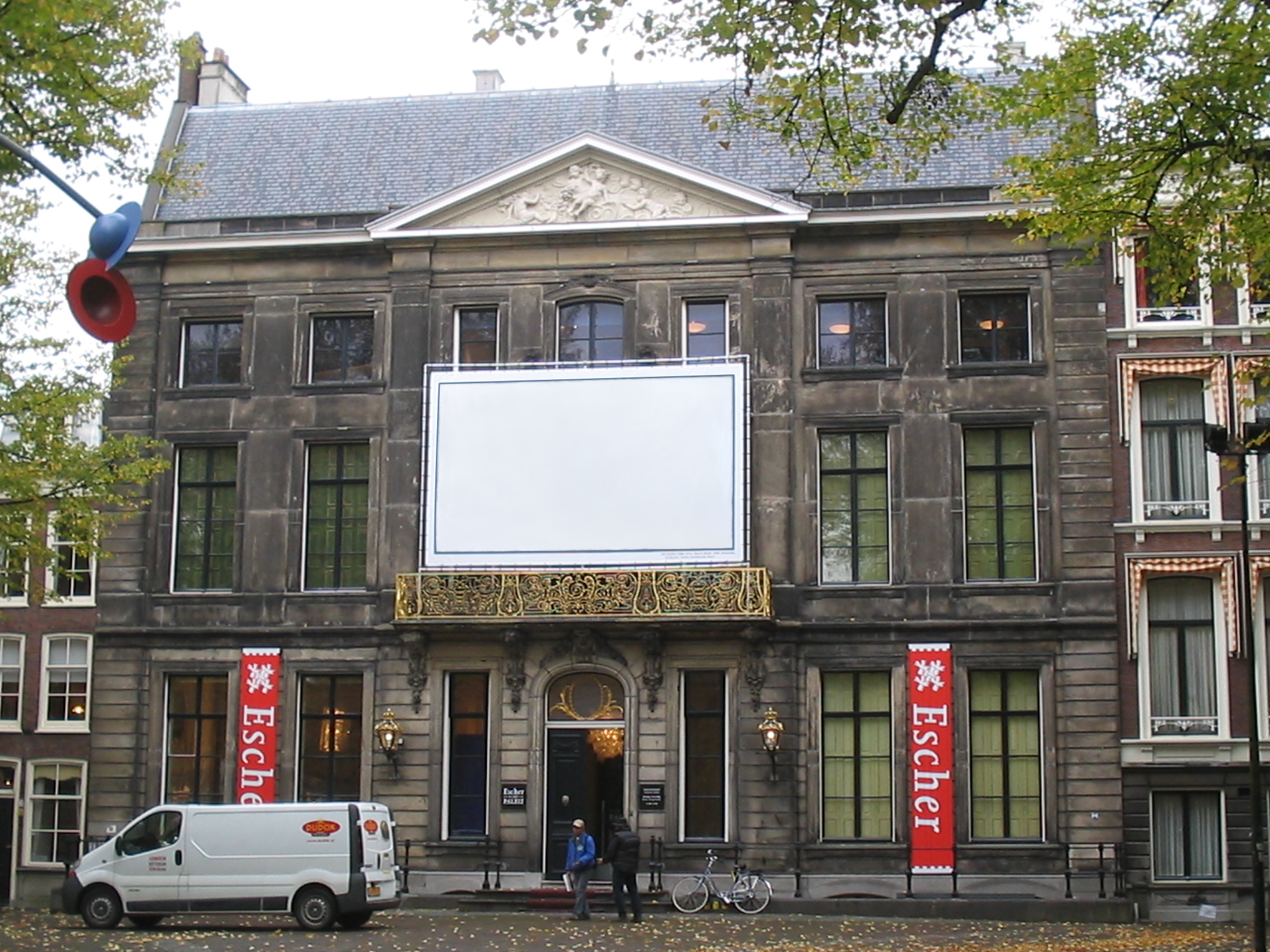 Paleis Lange Voorhout / M.C Escher-museum, Den Haag, Netherlands. Note: The original image "Day and Night" by Maurits Cornelis Escher was blanked due to copyright issues.